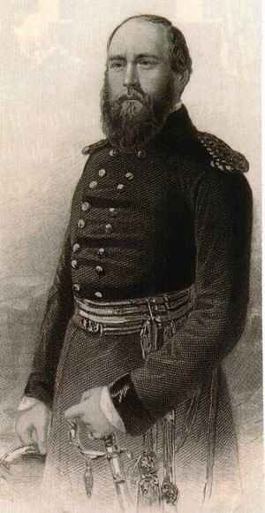 Prince Augustus Frederick, Duke of Sussex (1773 - 1843)